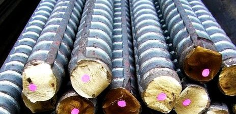 Detail: Steel rebars for arming concrete (top) and metal shingles (bottom).